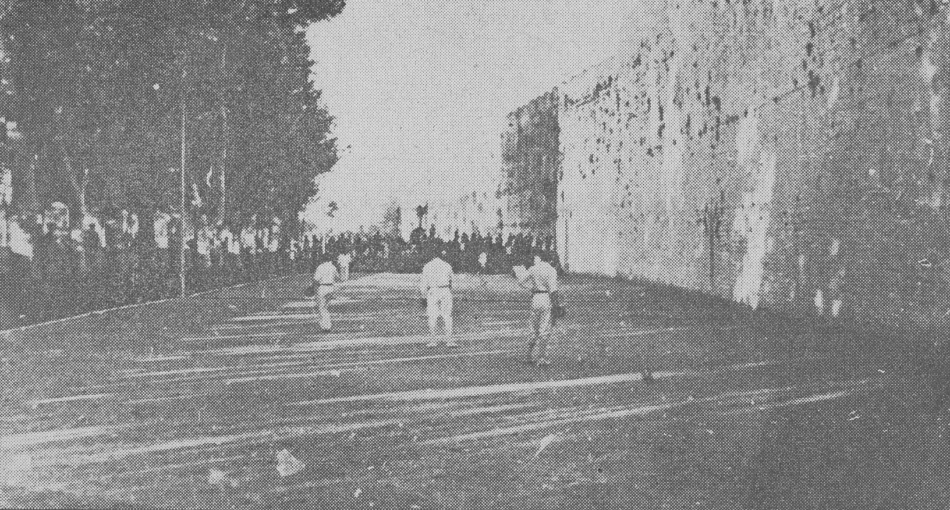 A "Pallone" game in the old Sphaeristerium of Pisa, Tuscany, Italy.